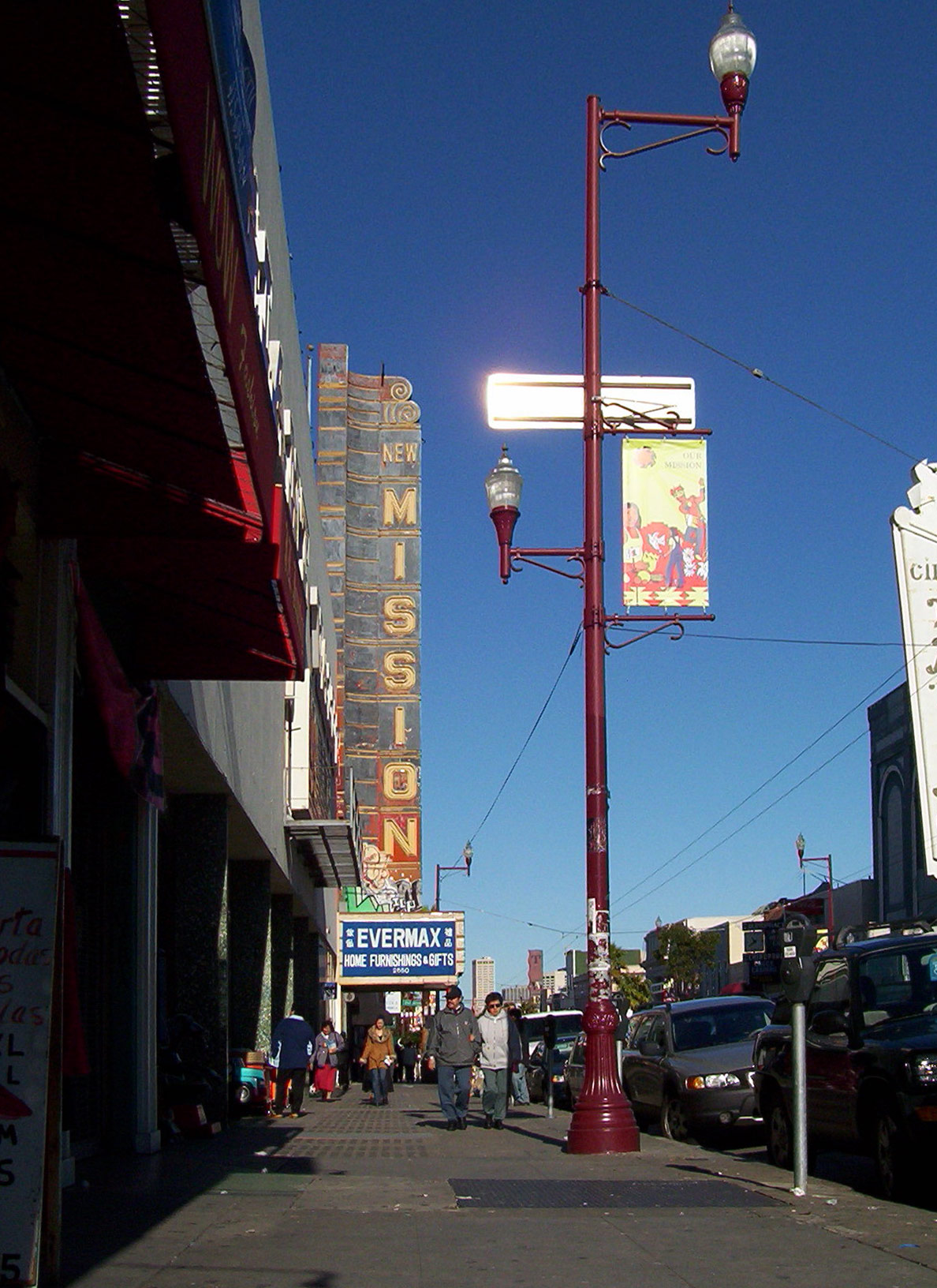 Straightened (and better named) version of :Image:100_0062.JPG.